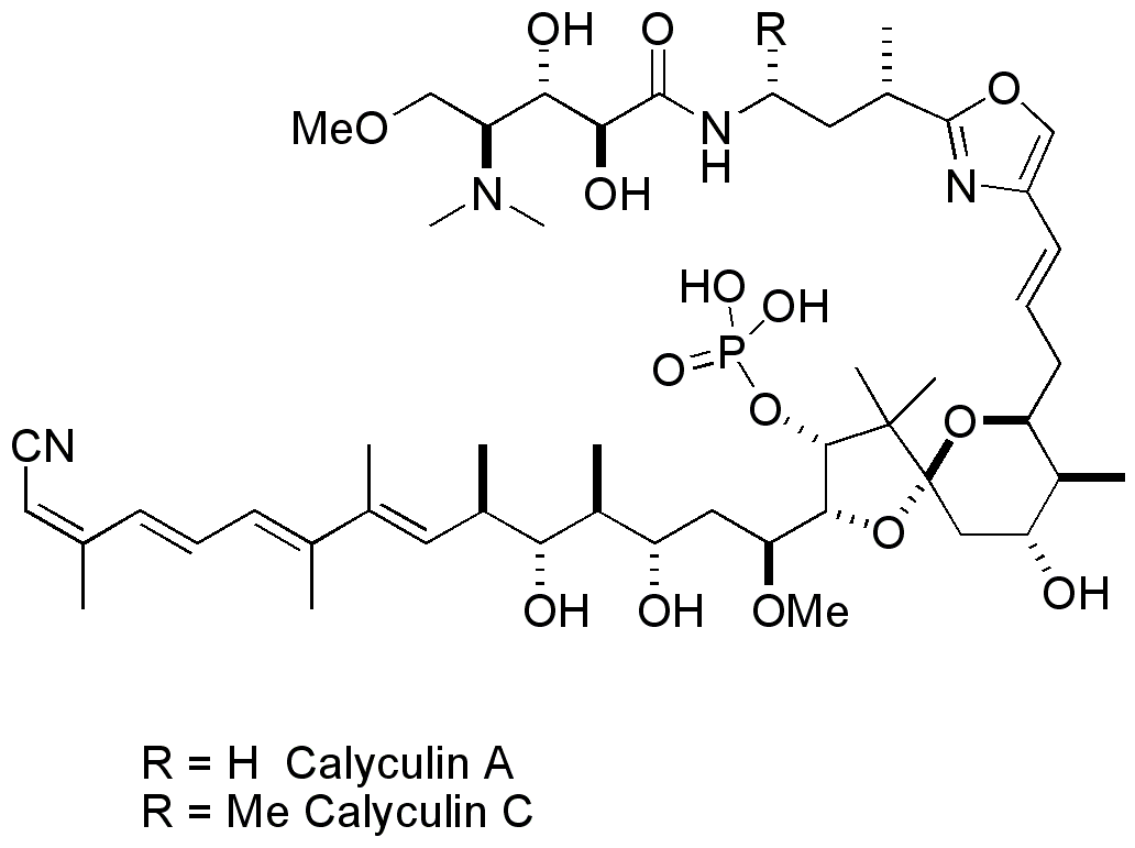 Structures of Calyculin A and C